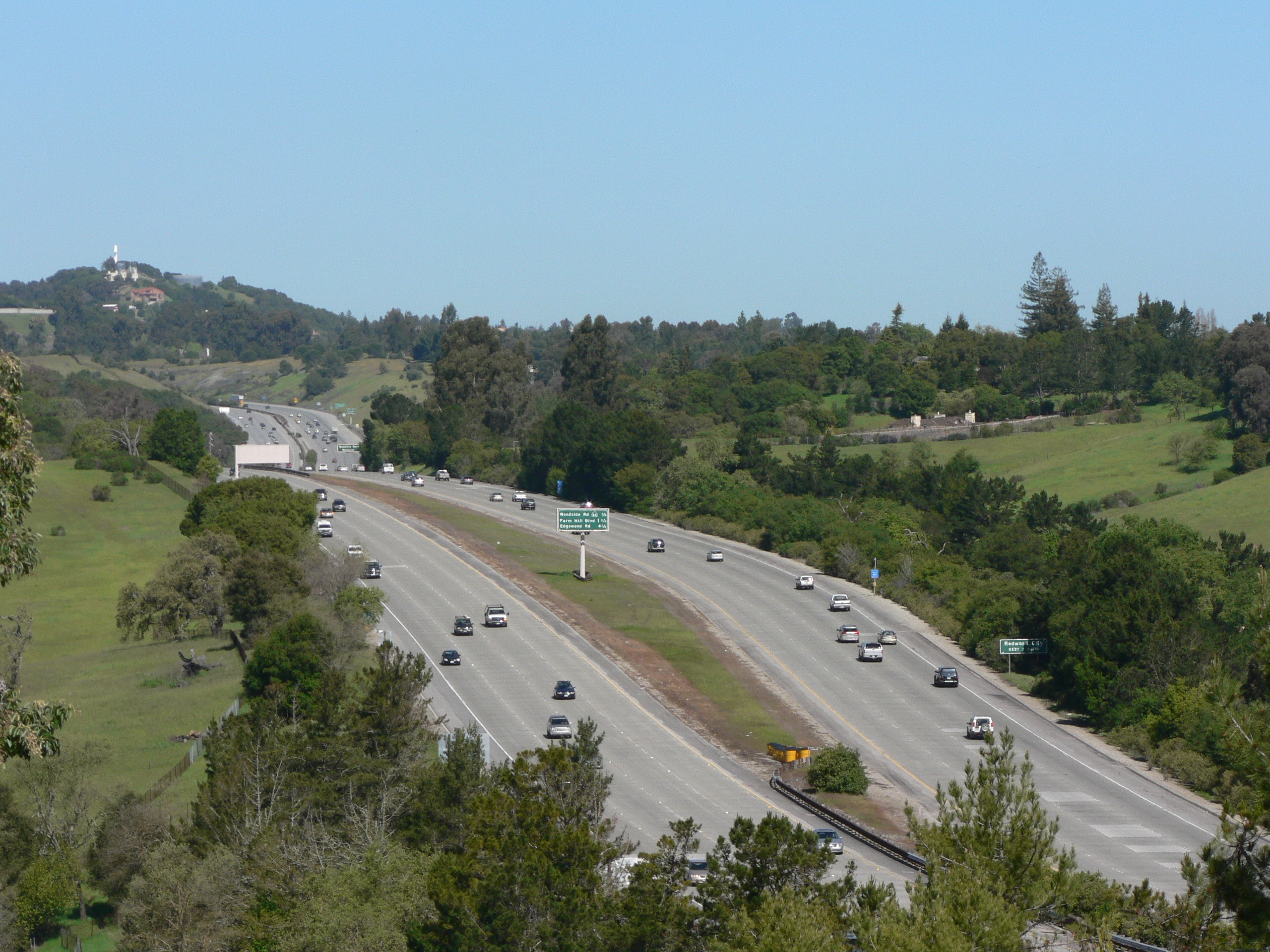 Interstate 280 near Stanford University; photo taken from a little stretch of road, going to a ranch, following I-280 parallel to it, north from Page Mill Road